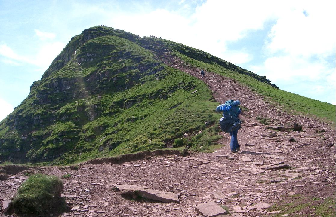 Our Duke of Edinburgh group on the east but challenging ridge of Pen Y Fan. Luckily it was a clear day. This is the approach to the summit of Corn Du.